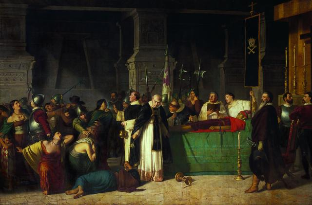 Funeral of Atahualpa